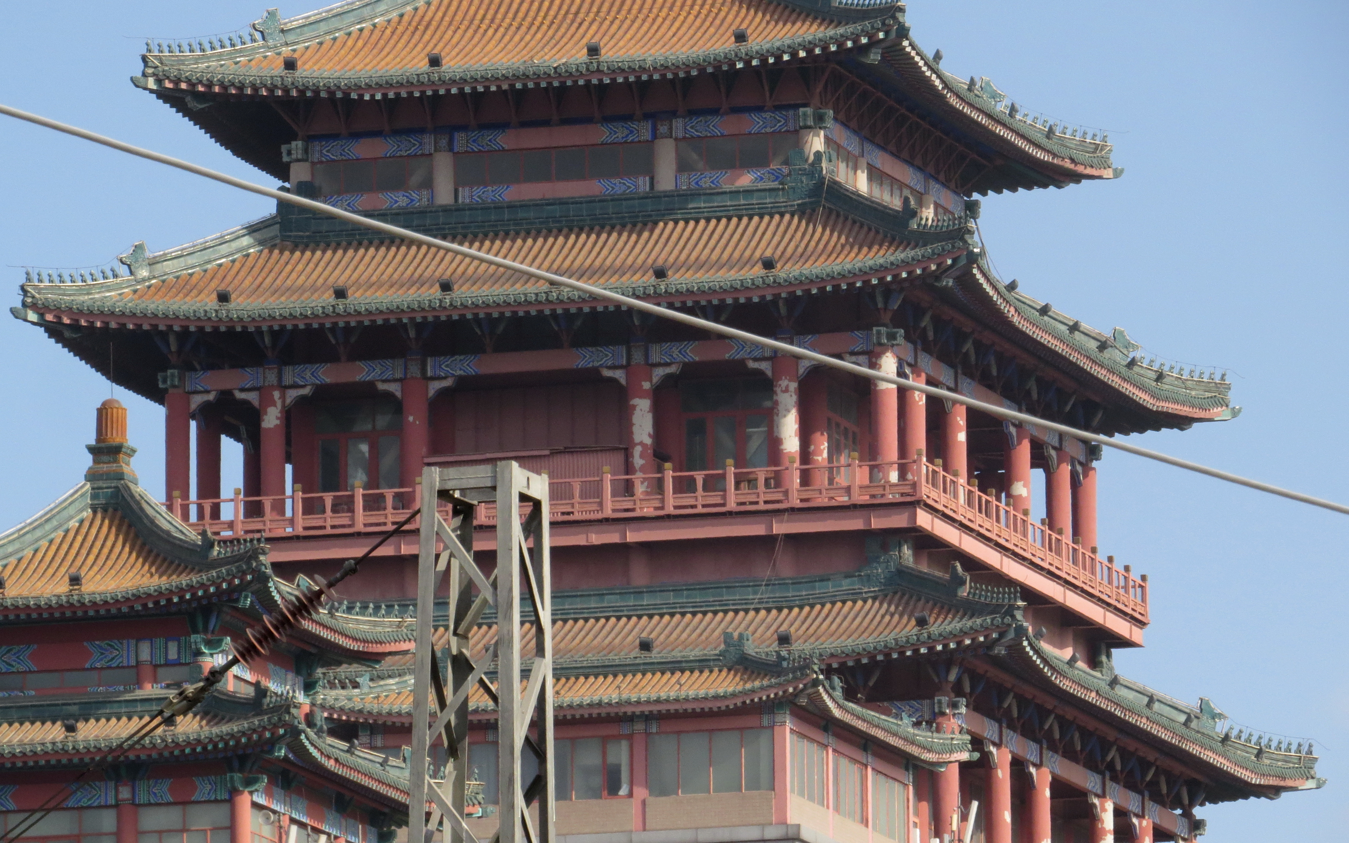 This "pavilion" is puzzling, and is possibly used as a storeroom.